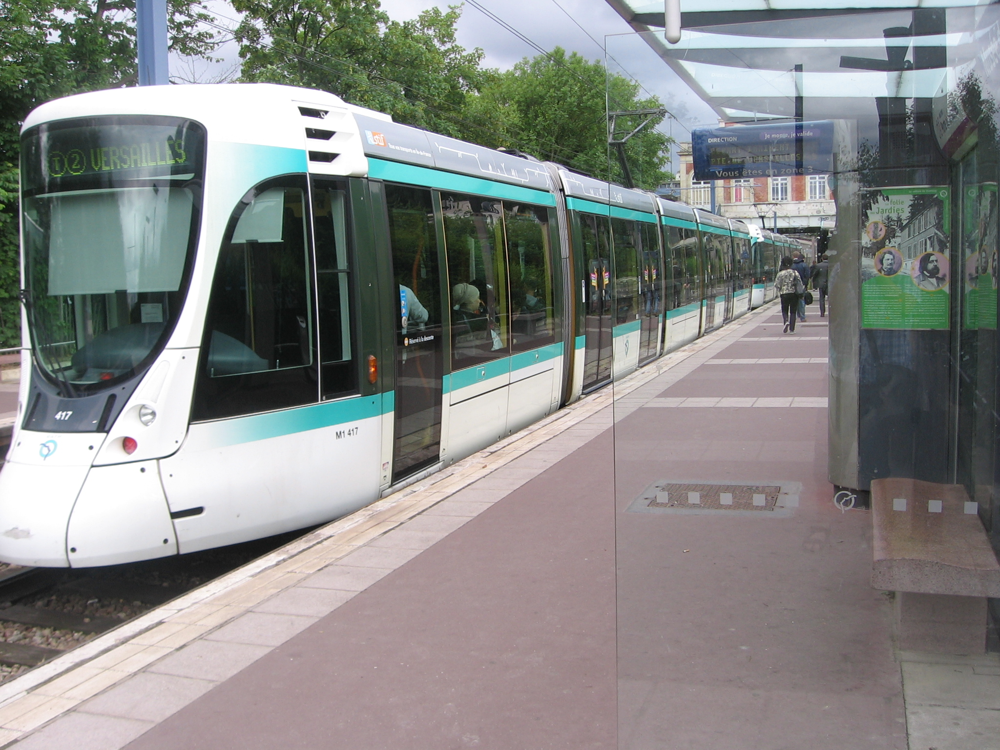 Paris tram T2 at the Musée de Sévres stop.